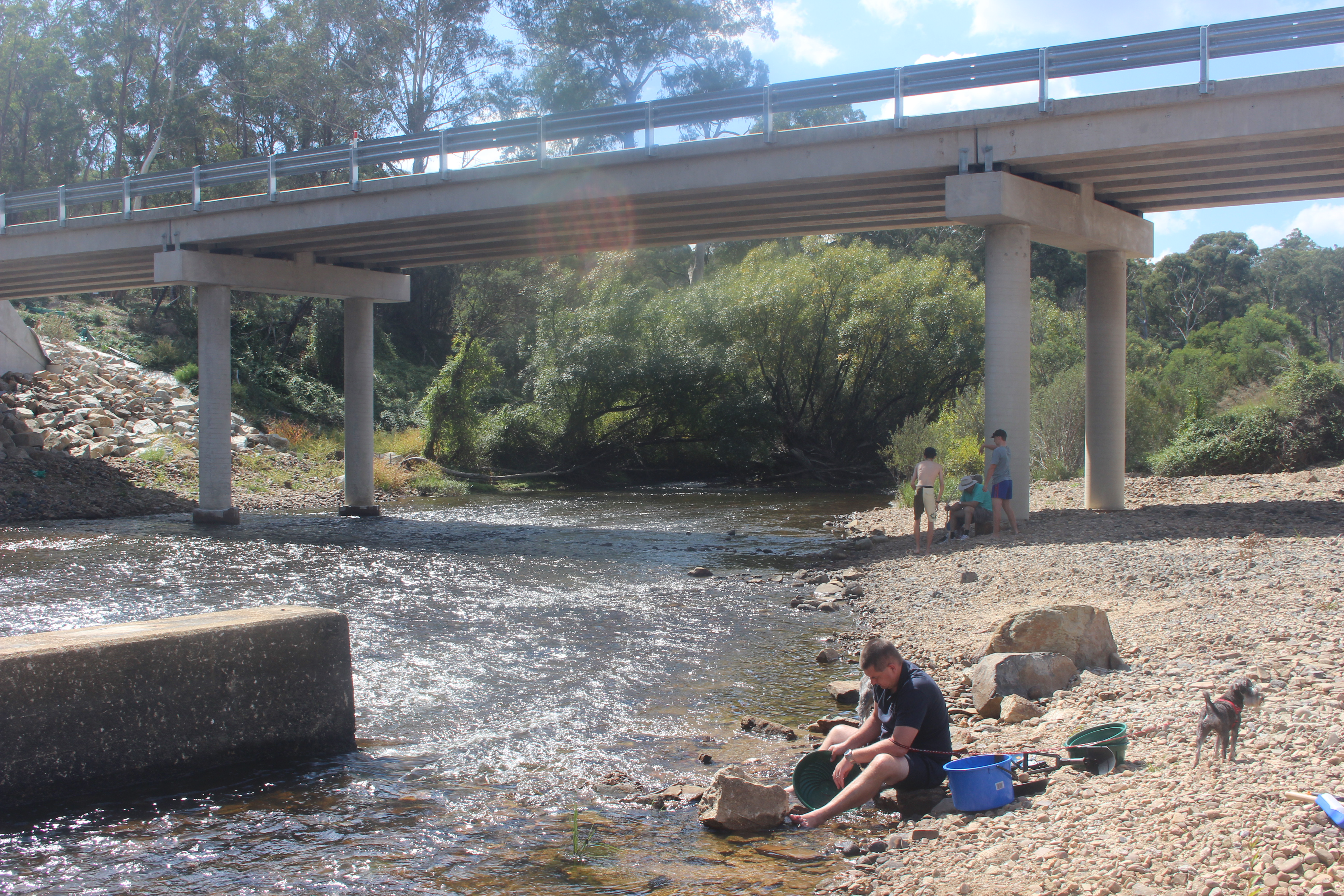 New bridge at Oallen Ford, Shoalhaven River with gold panning